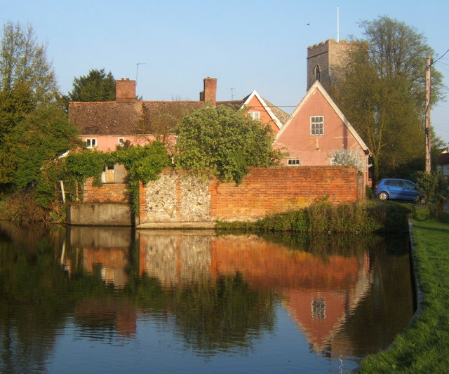 Village pond at Haughley Seen on a lovely spring evening, with an attractive group of cottages and the church beyond. The pond appears to be part of a moat system surrounding a former motte and bailey castle complex.